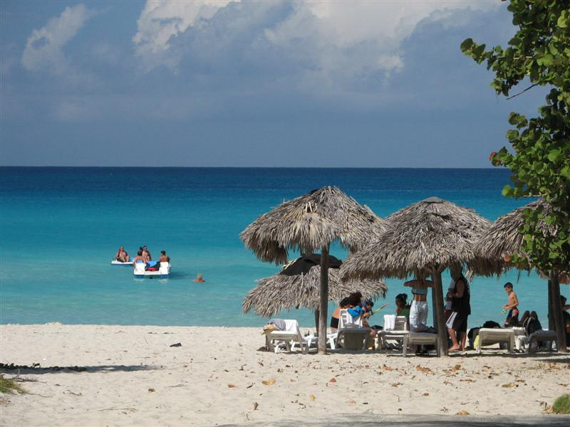 Varadero beachVaradero, Cuba